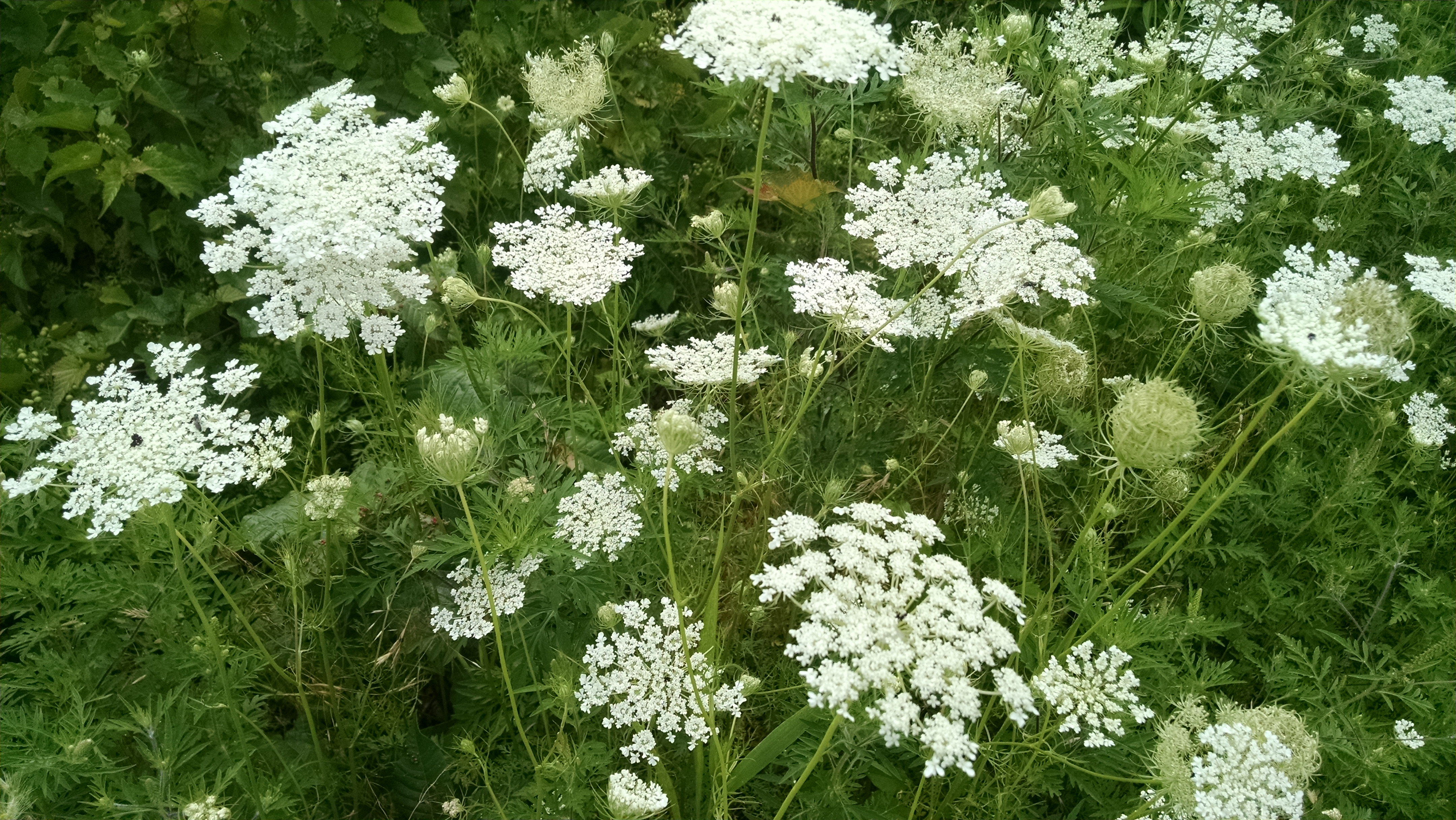 Daucus carota, Queen Anne's lace, on a roadside.